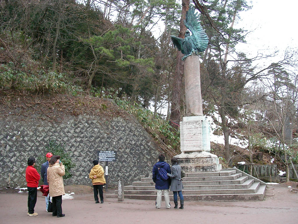 Byakkotai Suicide Monument by Benito Mussolini in 1928. The inscription reads:S.P.Q.R. IN THE NAME OF FASCESROMEMOTHER OF CIVILIZATIONWITH THIS COLUMN MILLENARYWITNESS FOR ETERNAL GREATNESSGRANTS IMPERISHABLE HONORTO THE MEMORY OF THE HEROES OF BYAKKOTAI YEAR MCMXXVIII - VI FASCIST ERA